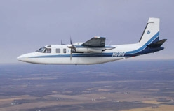 A Rockwell Aero Commander model 690A, N53RF operated by NOAA.